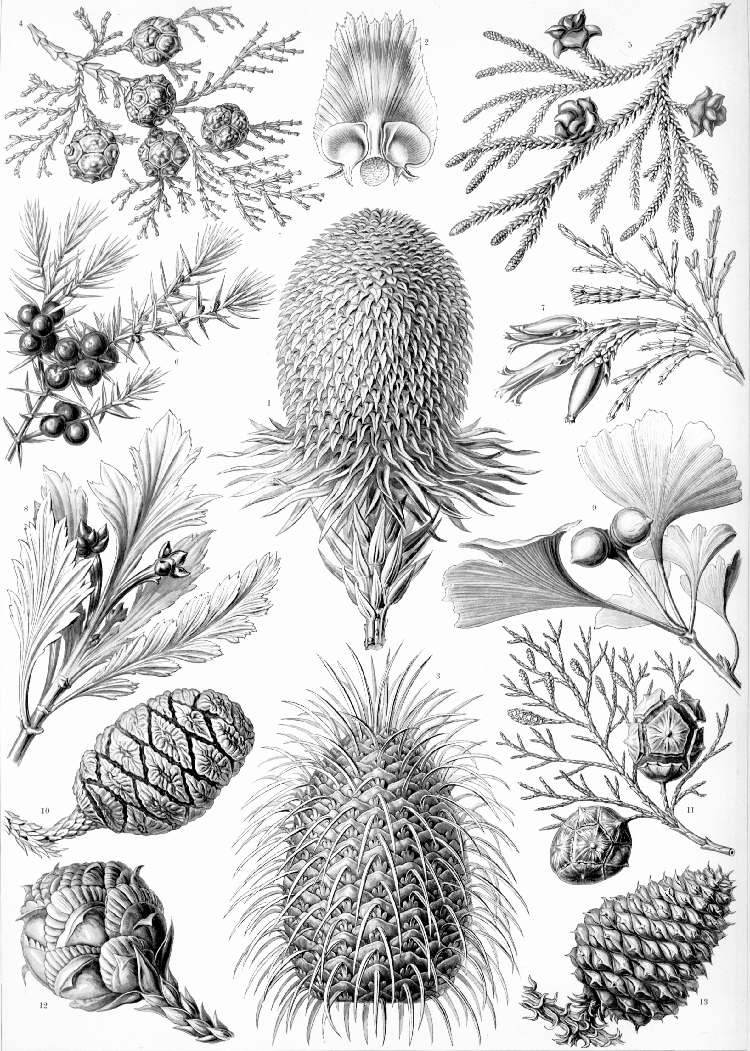 Araucaria brasiliana (Lamb) = Araucaria angustifolia (Bertol.) Kuntze, female cone Picea excelsa (Link) = Picea abies (L.) H.Karst., scale of female cone from inside Abies bracteata (Hooker) = Abies bracteata (D.Don) Poit., female cone Chamaecyparis obtusa (Siebold) = Chamaecyparis obtusa (Siebold & Zucc.) Endl., branch with female cones Thujopsis dolabrata (Siebold) = Thujopsis dolabrata (Linnaeus, 1758)(Thunb. ex L.f.) Siebold & Zucc., branch with 12 male and 3 female cones Juniperus communis (Linné) = Juniperus communis L., branch with fruit Libocedrus decurrens (Torr) = Calocedrus decurrens (Torr.) Florin, branch with female cones Phyllocladus rhomboidalis (Richard) = Phyllocladus aspleniifolius (Labill.) Hook.f., branch with female cones Ginkgo biloba (Linné) = Ginkgo biloba L., branch with seed Sequoya gigantea (Torr) = Sequoiadendron giganteum (Lindl.) J. Buchholz, female cone Cupressus sempervirens (Linné) = Cupressus sempervirens L., branch with 7 male and 2 female cones Taxodium distichum (Richard) = Taxodium distichum (L.) Rich., female cone Pinus serotina (Linné) = Pinus serotina Michx., female cone